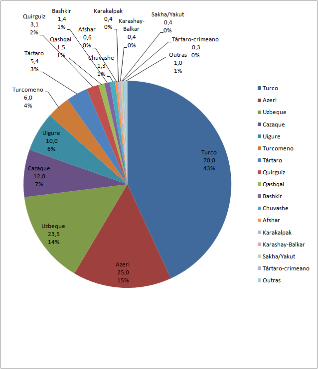 Number of native speakers in the Turkic language family.